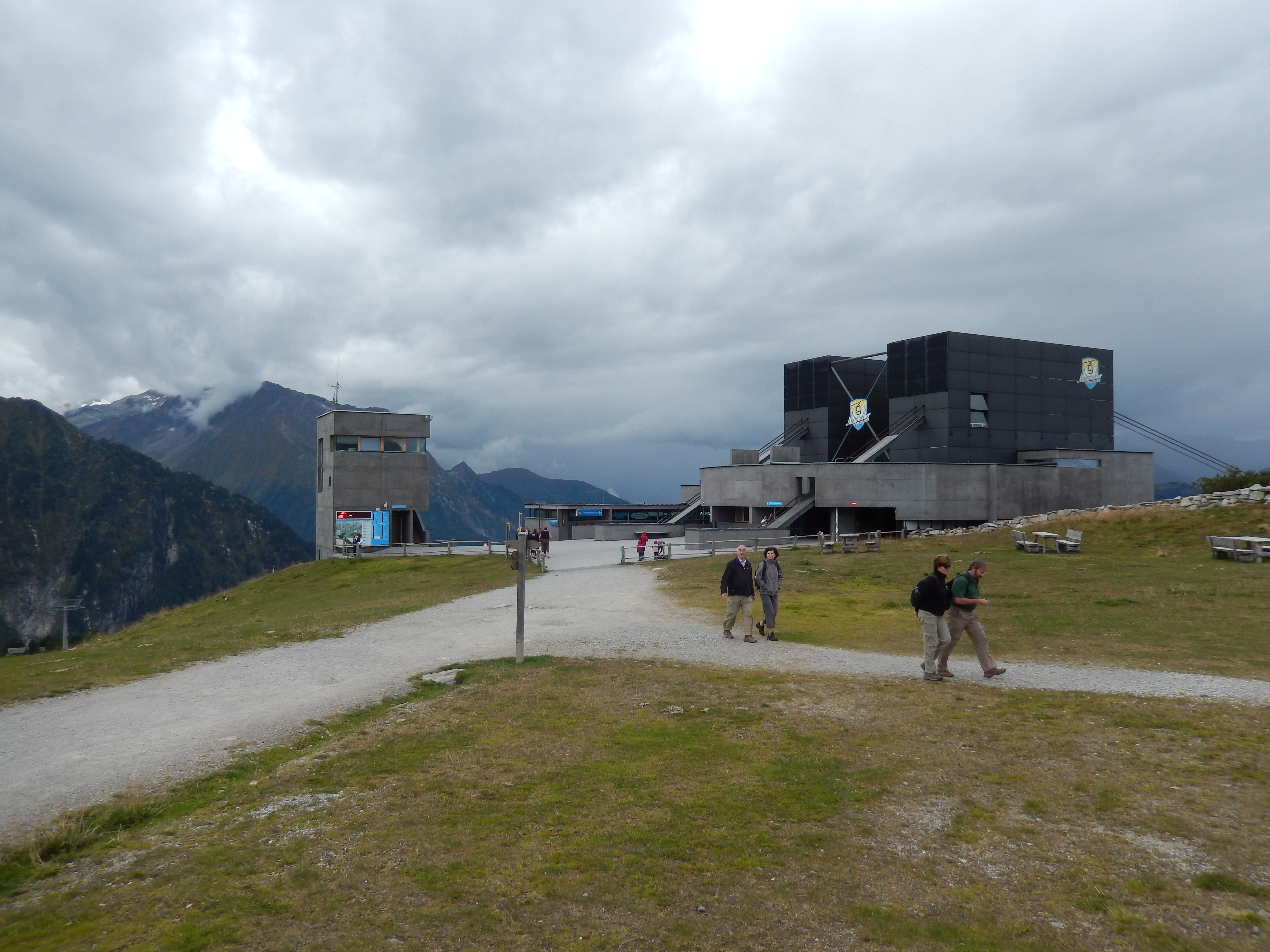 Ahornbahn near Mayrhofen, Austria.